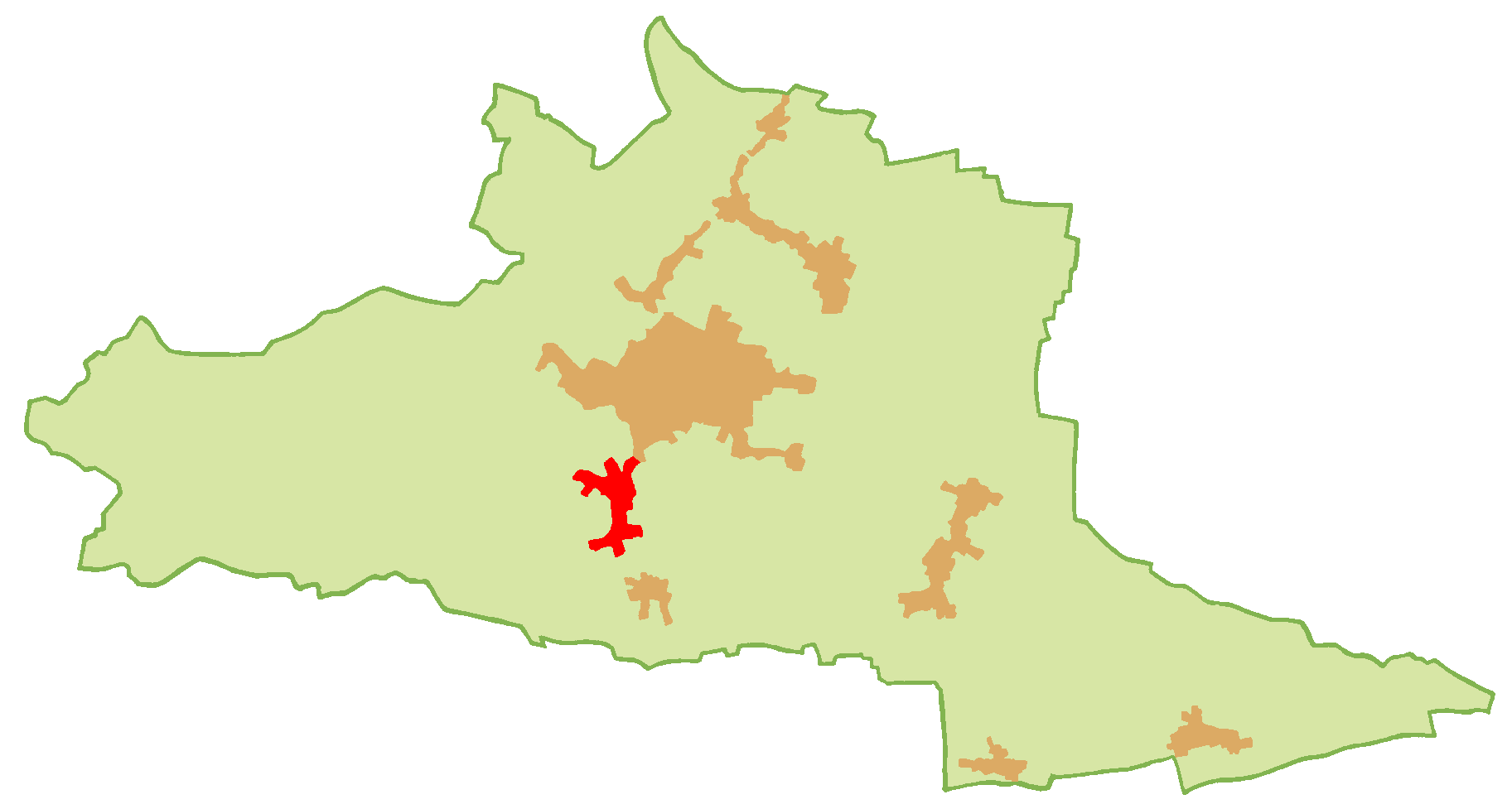 Neustadt an der Weinstraße, quarter Hambach